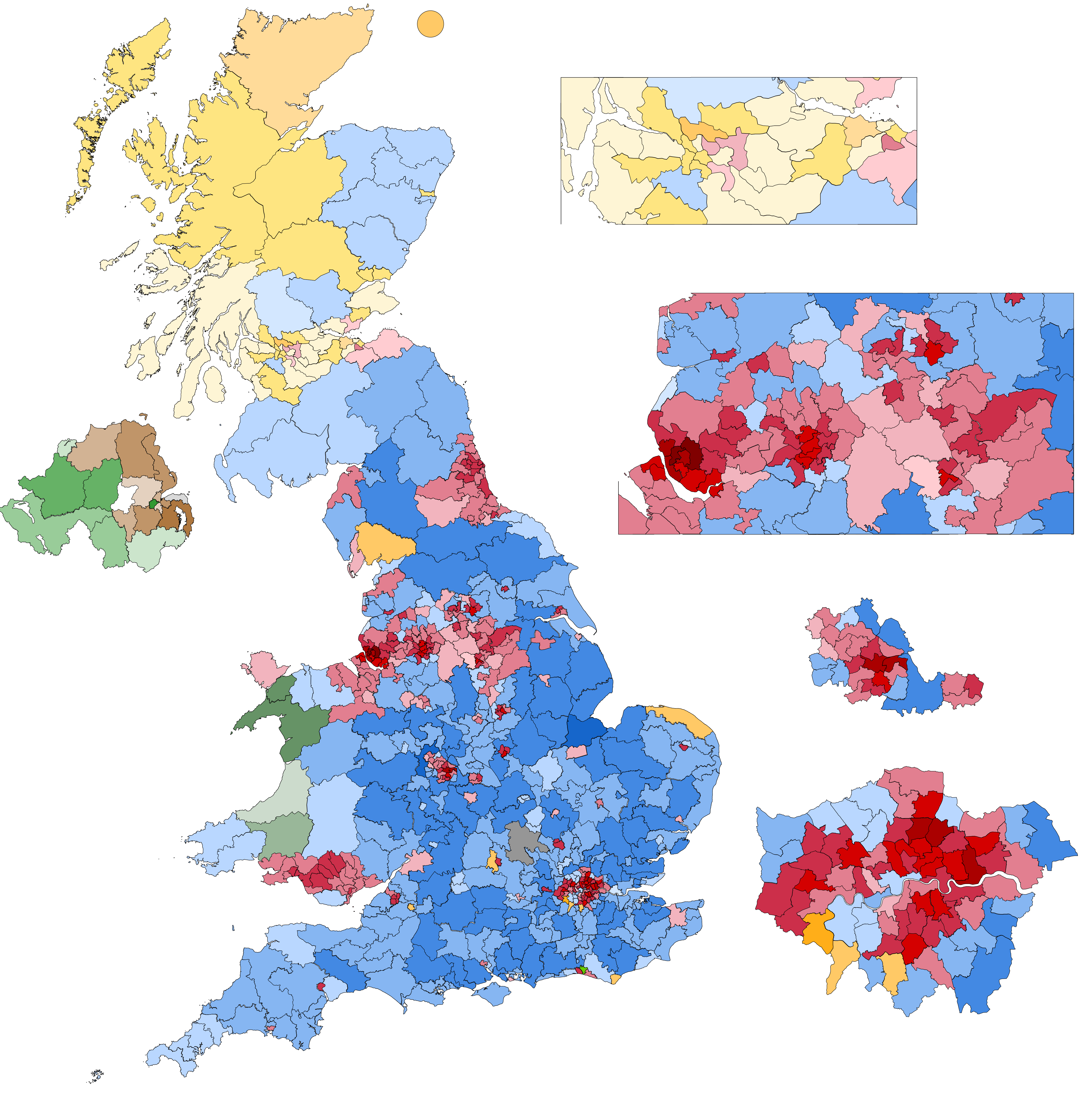 Results by constituency, shaded according to winning party's percentage of the vote